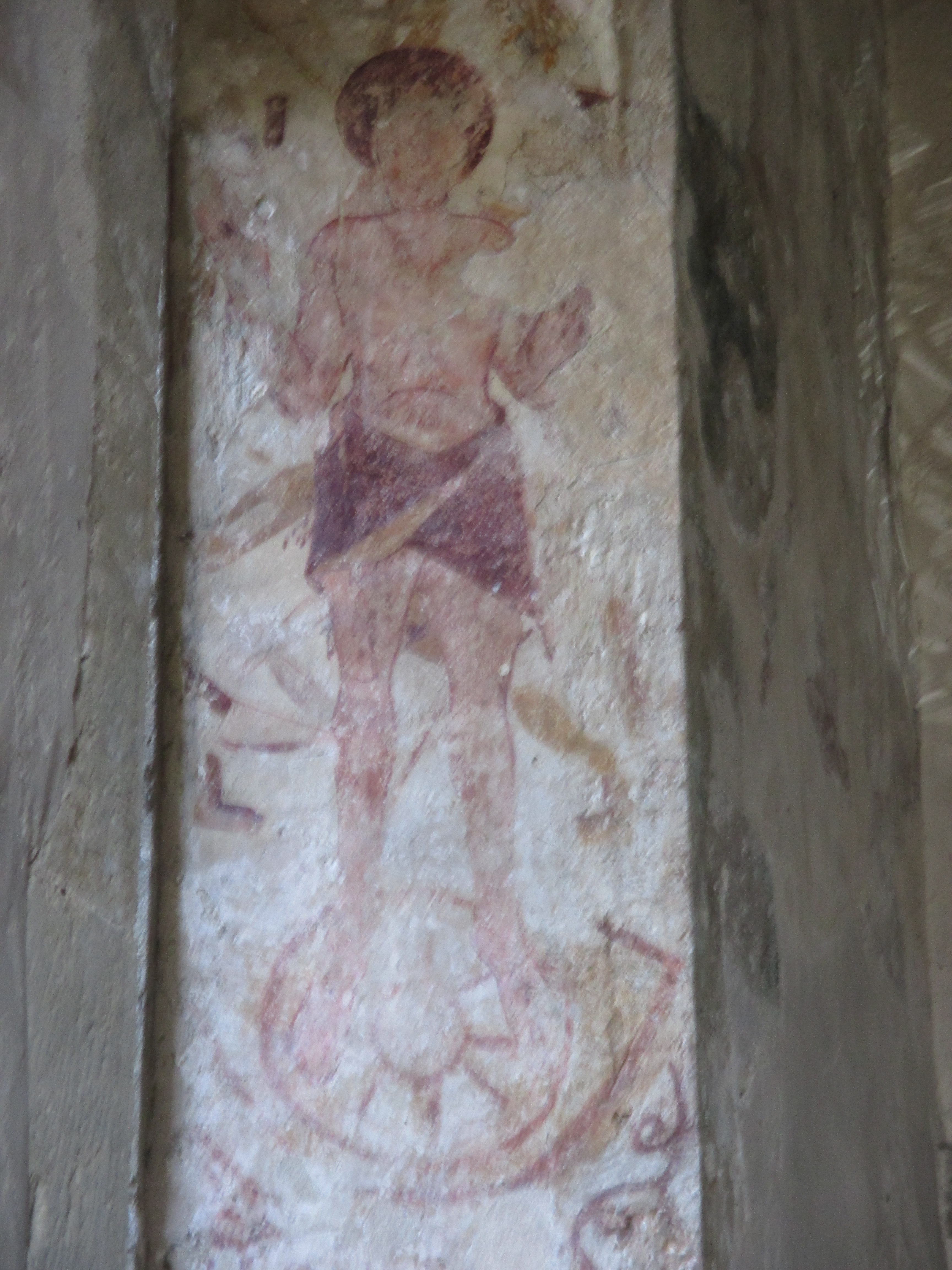 12th-century fresco depicting Christ standing on a wheel in St Mary's Church, West Chiltington, West Sussex.